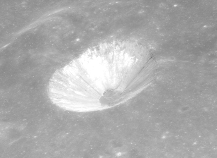 Oblique view of Brewster crater, on the moon, facing north.